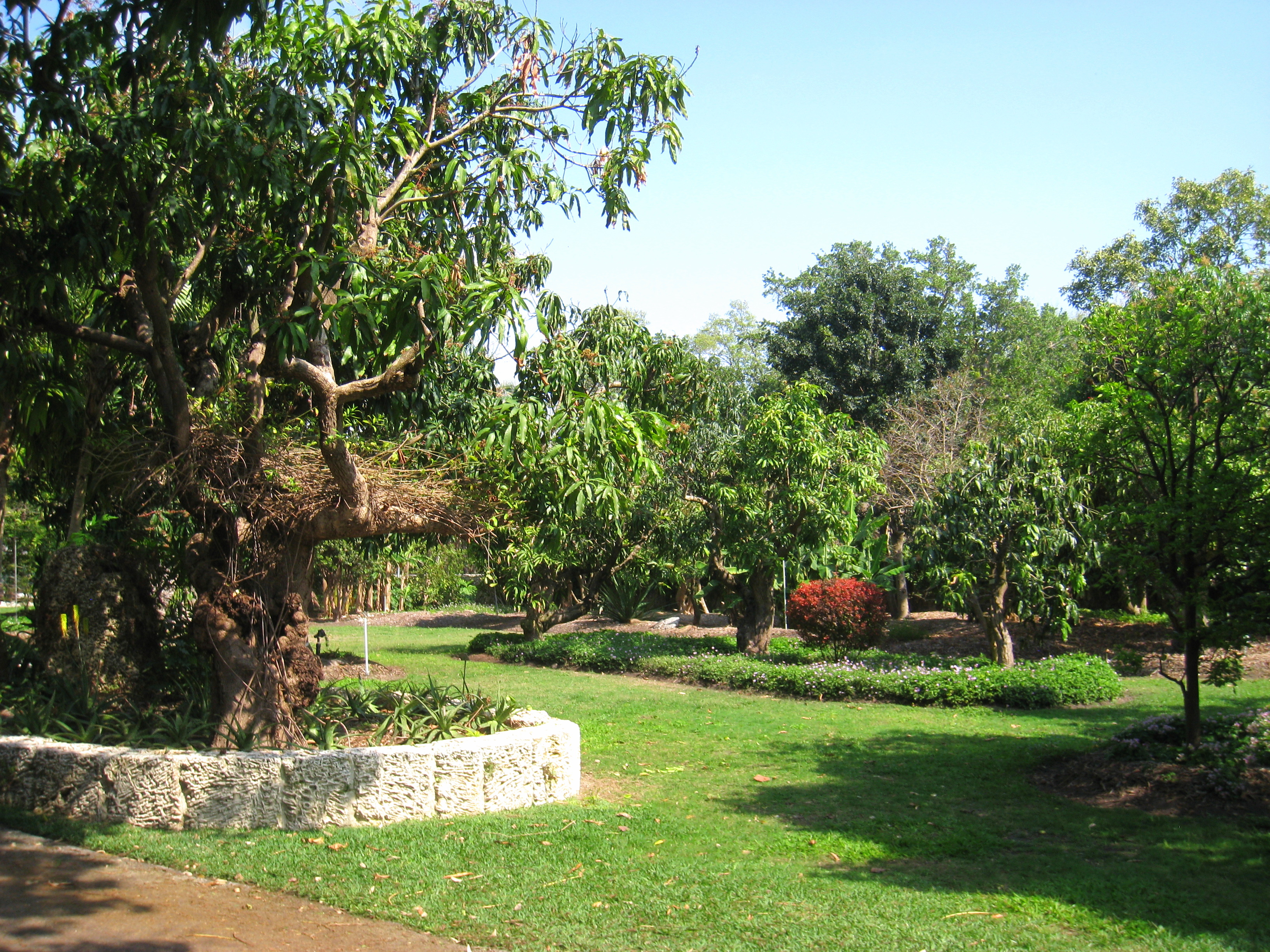 The Kampong, Coconut Grove, Florida, USA. General view.